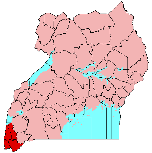 Ugandan region of Kigezi and its districts Created by editing picture